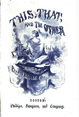 This, That, and the Other, By Louise Chandler Moulton